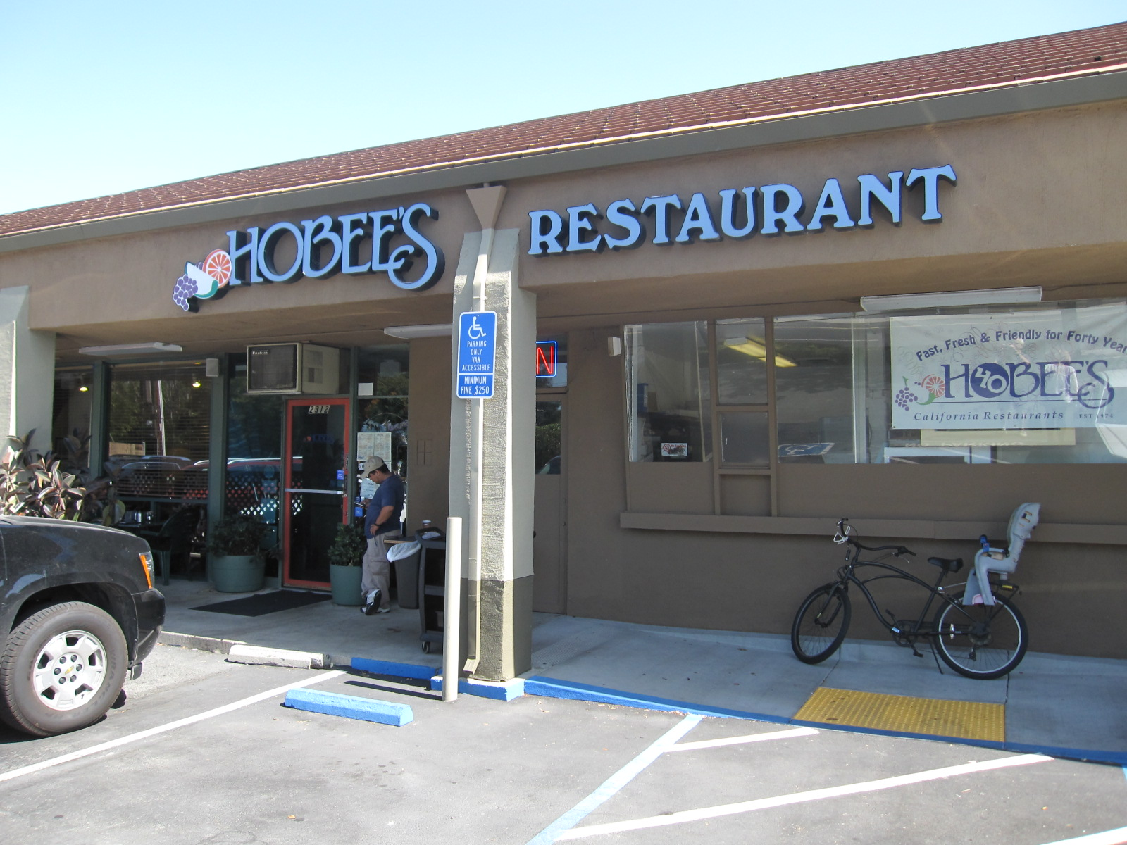 Hobee's is a chain of sit-down restaurants in San Mateo and Santa Clara counties in Northern California. Paul Taber, the founder, bought the Dairy Belle in Mountain View, and opened the first Hobee's restaurant in 1974.